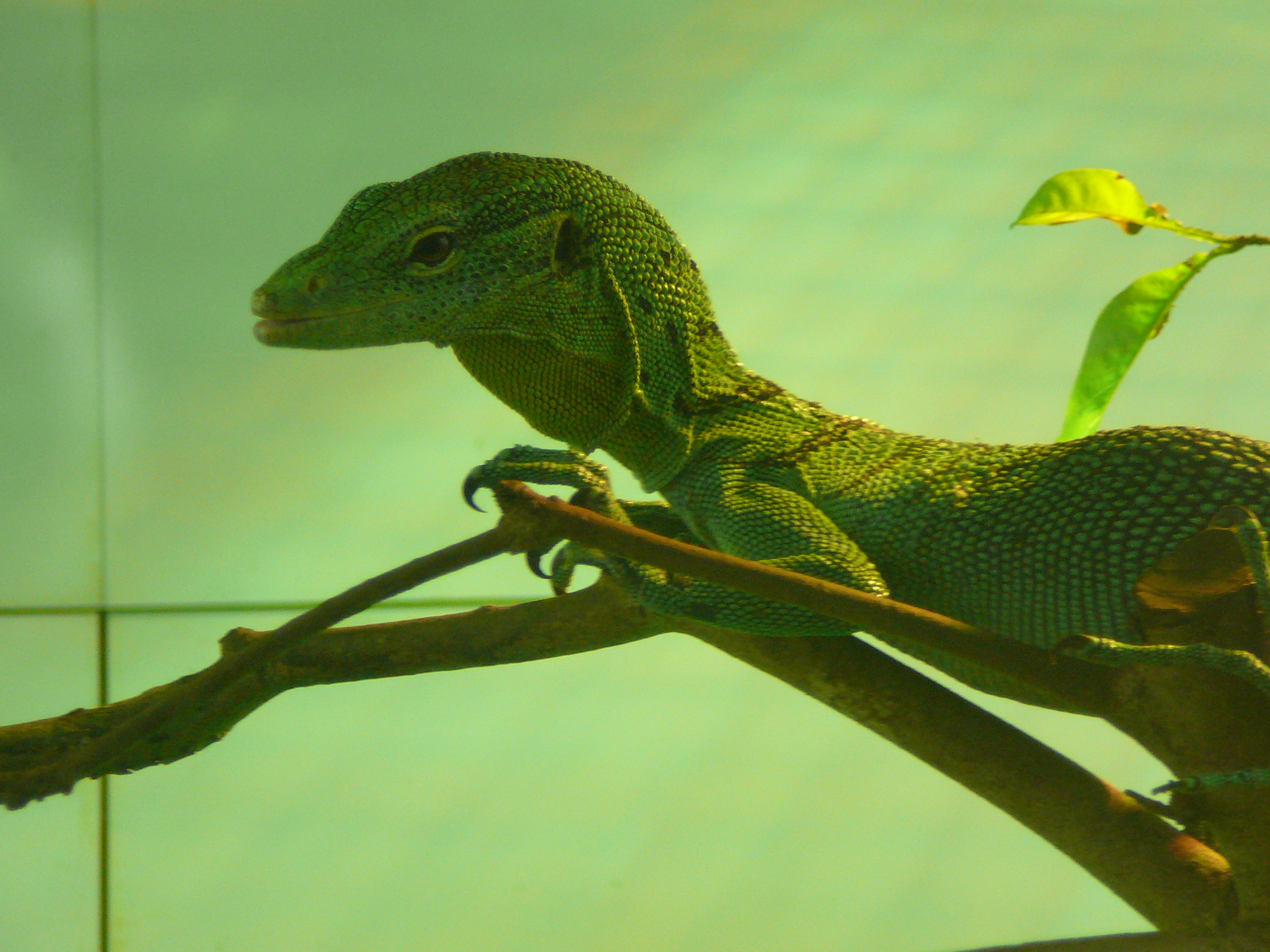 A green tree monitor at the Shedd aquarium in Chicago